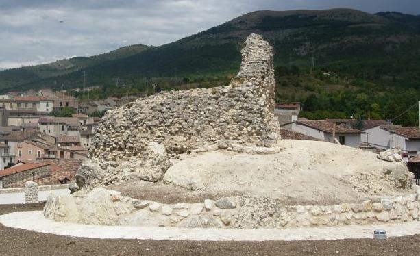 Podio de Picentia Castle in Poggia Picenze